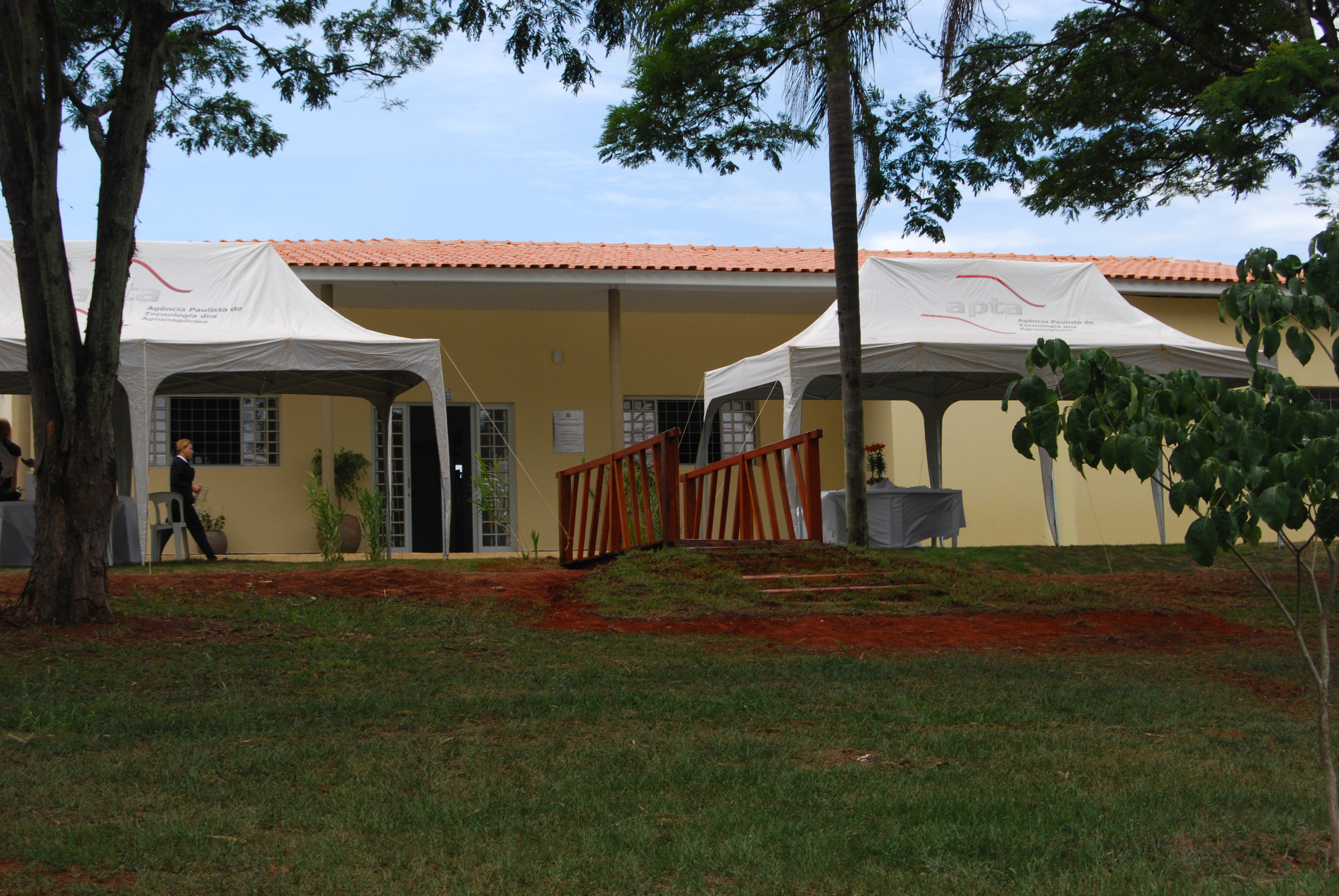 "Dr. Paulo Rogério Palma de Oliveira" Laboratory of Analysis of Sugarcane Technology, in Piracicaba, São Paulo, Brazil.